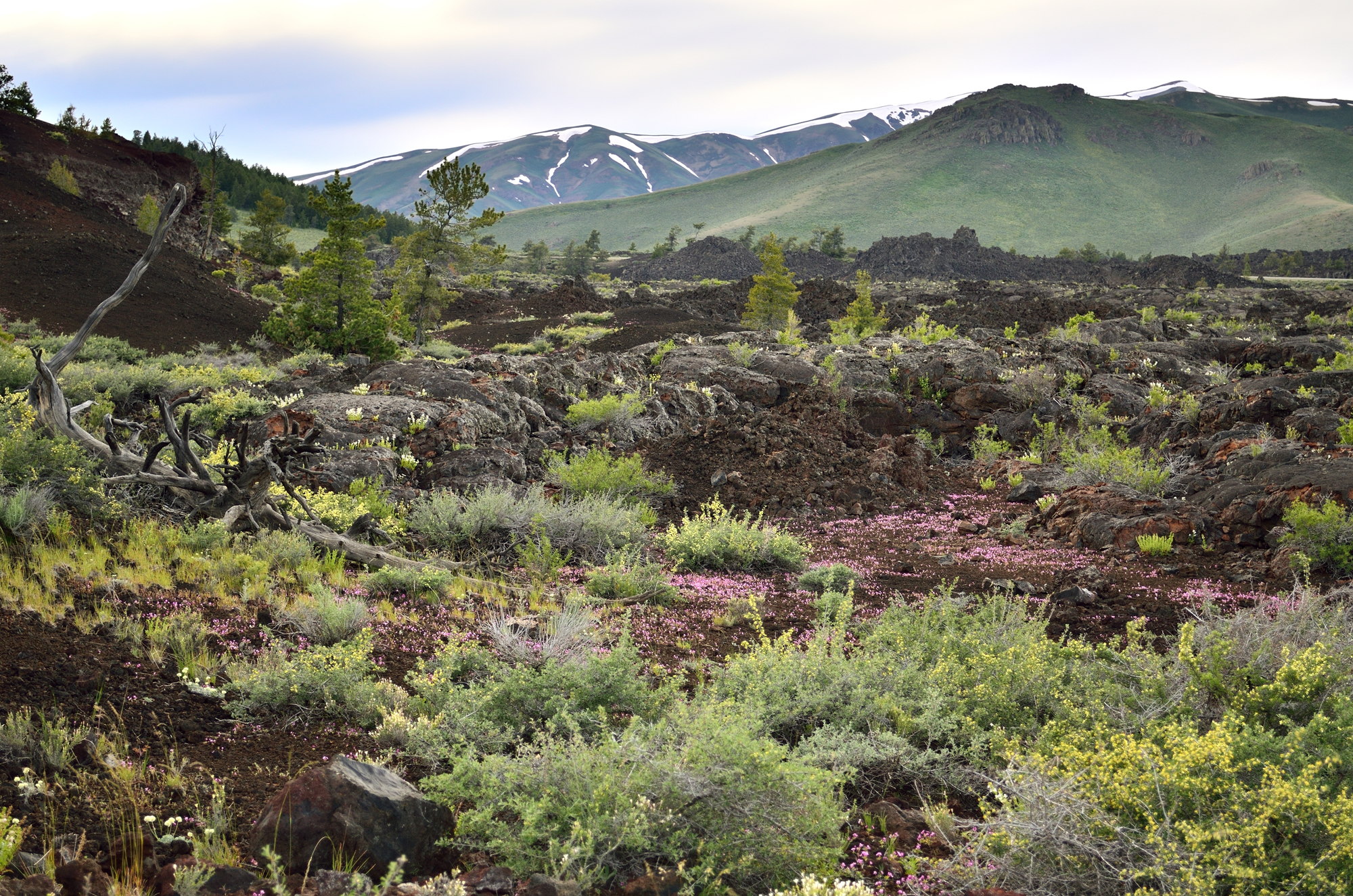 Managed jointly by the BLM and National Park Service, Craters of the Moon National Monument is a uniquely preserved volcanic landscape whose central focus is the Great Rift, a 62-mile long crack in the Earth’s crust. Craters, cinder coves, lava tubes, deep cracks and vast lava fields form a strangely beautiful volcanic sea on central Idaho’s Snake River Plain. Local legends made references to the landscape resembling the surface of the moon. In fact, the second group of astronauts to walk on the moon visited Craters of the Moon in 1969 to study the volcanic geology and to explore an unusual and harsh environment in preparation for their trip to space. Researchers continue to study the area - particularly the caves within the monument and nearby BLM Areas of Critical Environmental Concern. A number of the caves provide hibernation habitat for Townsend’s big-eared bats, a sensitive species. And they provide a great learning resource for local students.